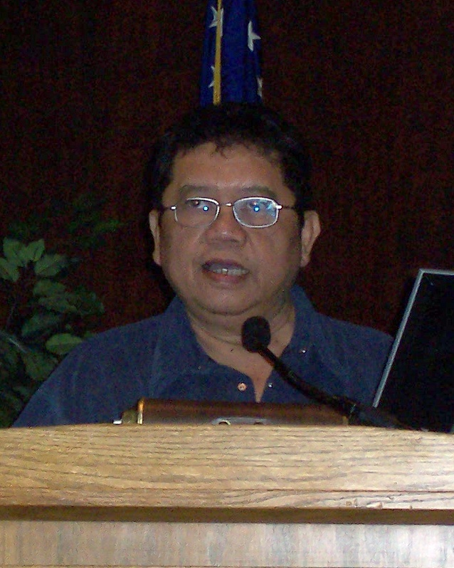 Lat speaking at the International Comic Arts Forum 2007, held at the Library of Congress